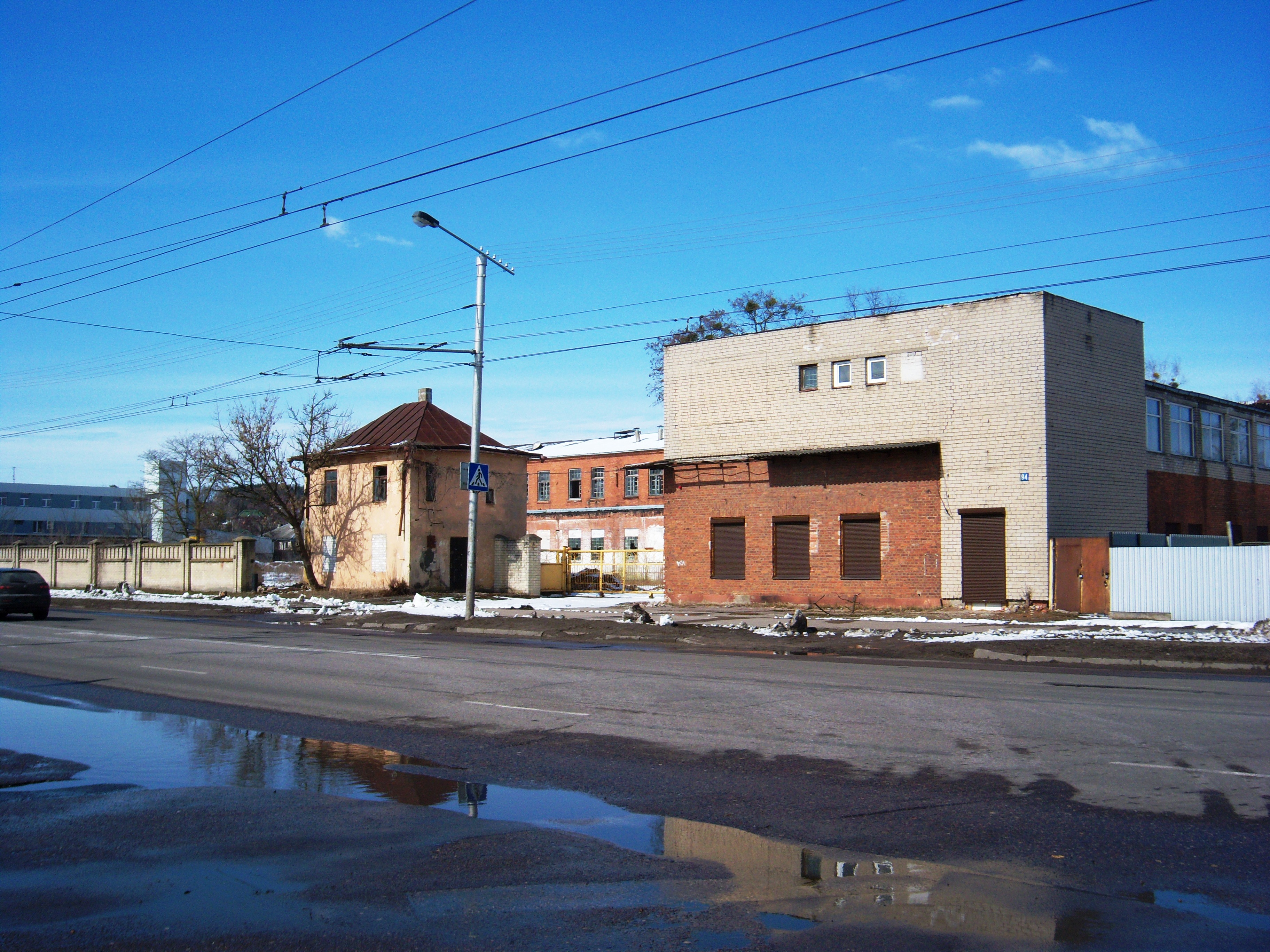 Former safety matches manufacturer Liepsna, Kaunas, Lithuania